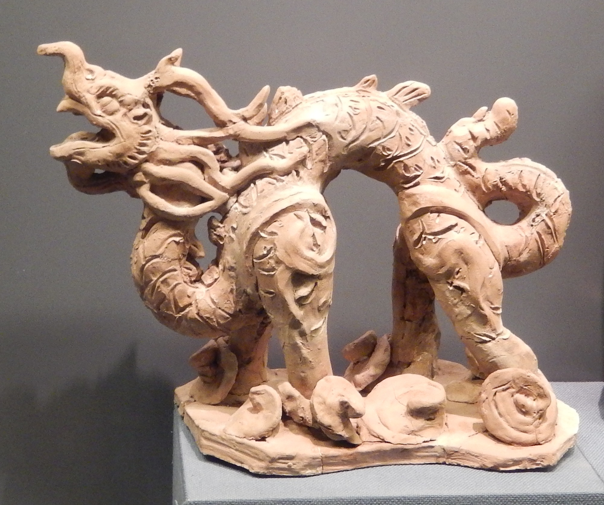 Pottery funerary figurine of a dragon. Han dynasty (206 BCE–220 CE). Held at the Capital Museum, Beijing.